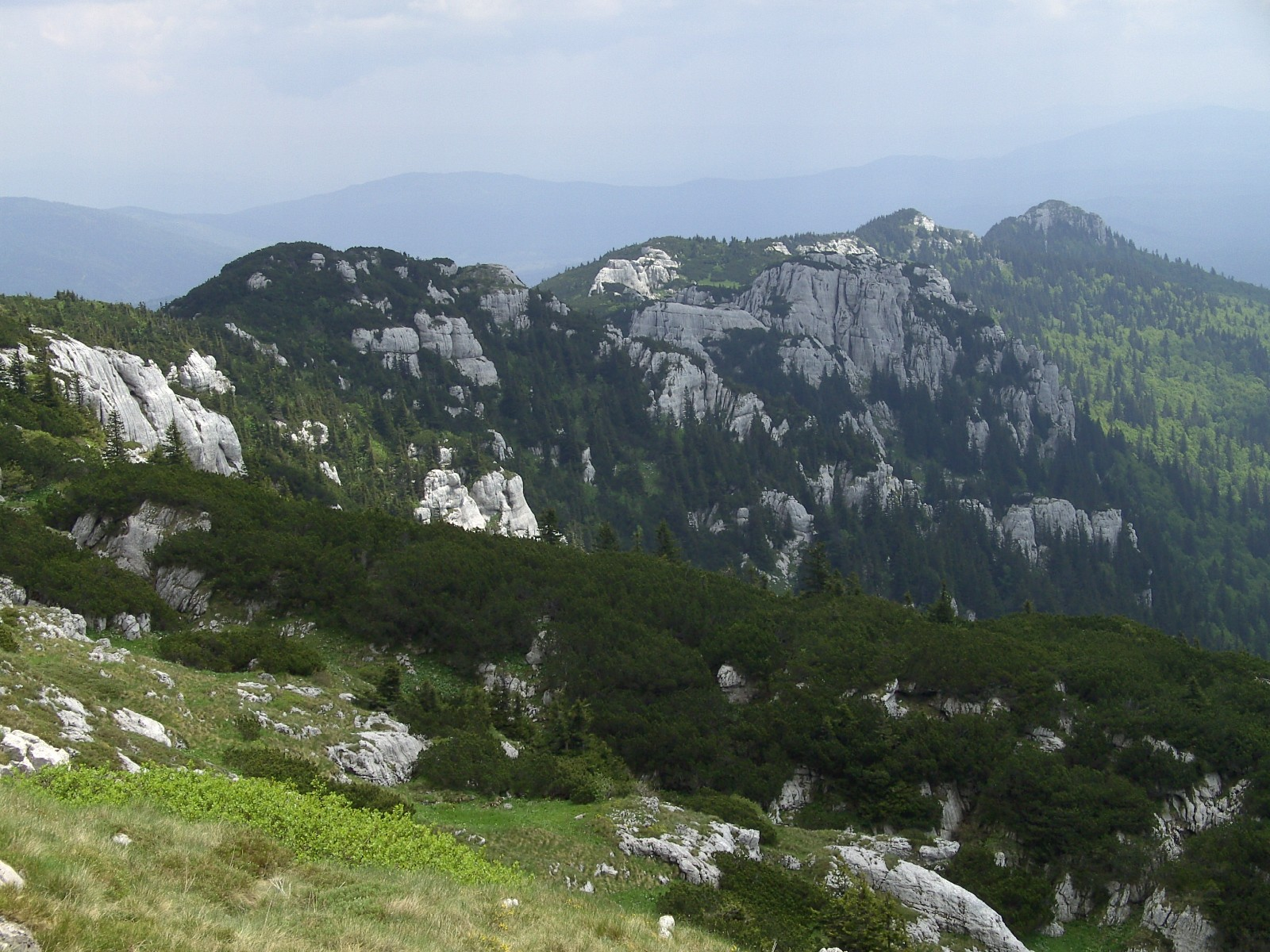 Klekovača mountains in BiH